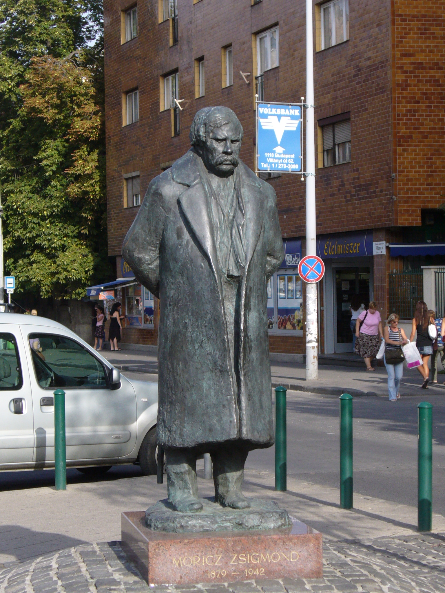 The statue of the writer Zsigmond Móricz at the Móricz Zsigmond square, Budapest. Sculptor: Imre Varga (2004)